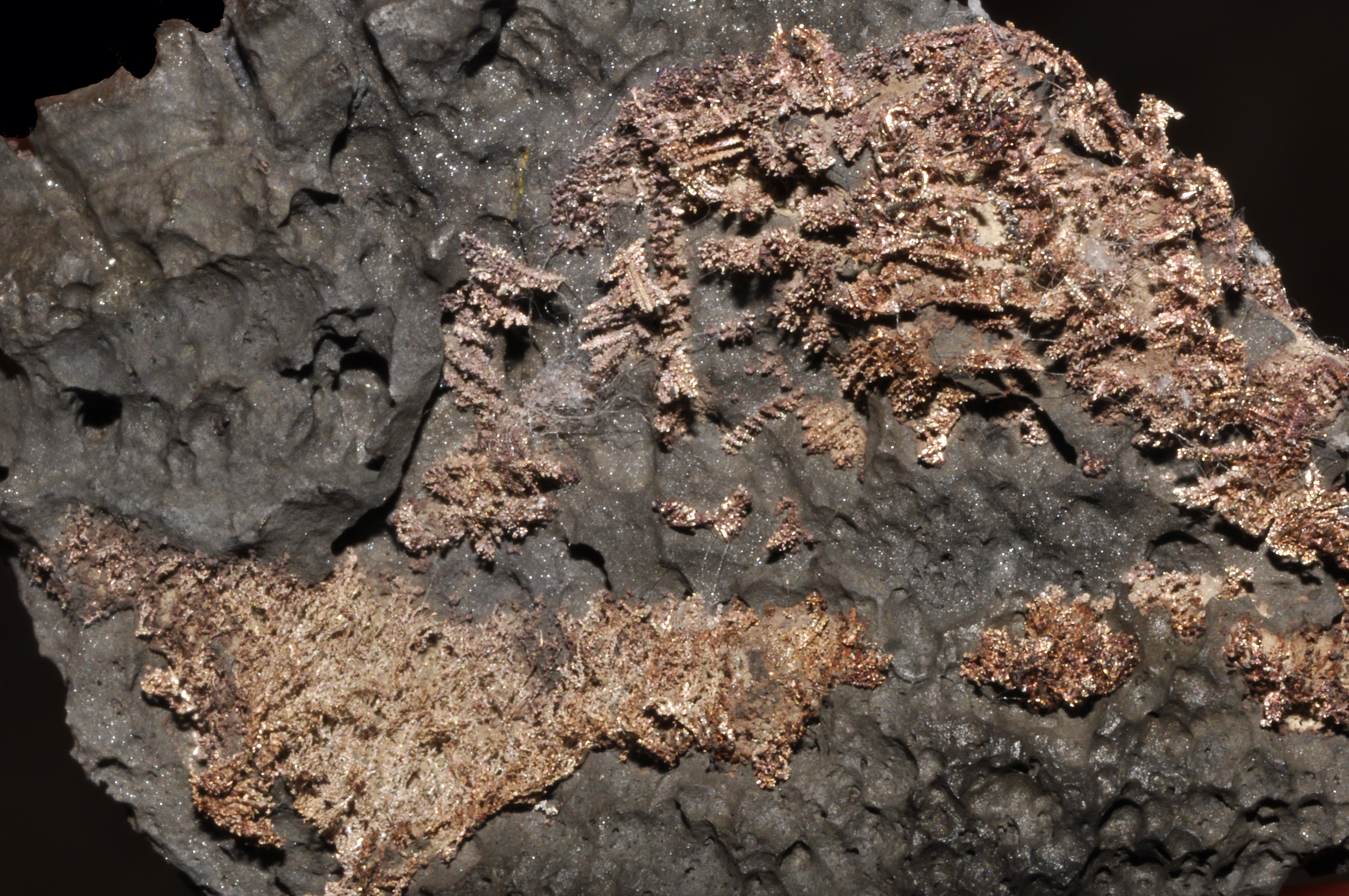 silver, arsenic : Shaft 371, Schlema-Hartenstein District, Erzgebirge, Saxony, Germany - 45 mm